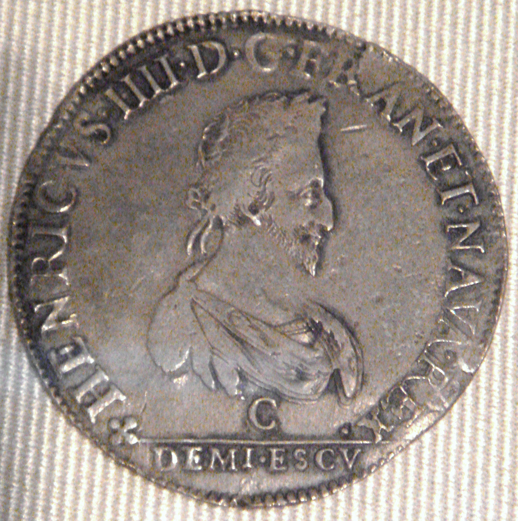 Henri_IV_demi_ecu_Saint_Lo_1589